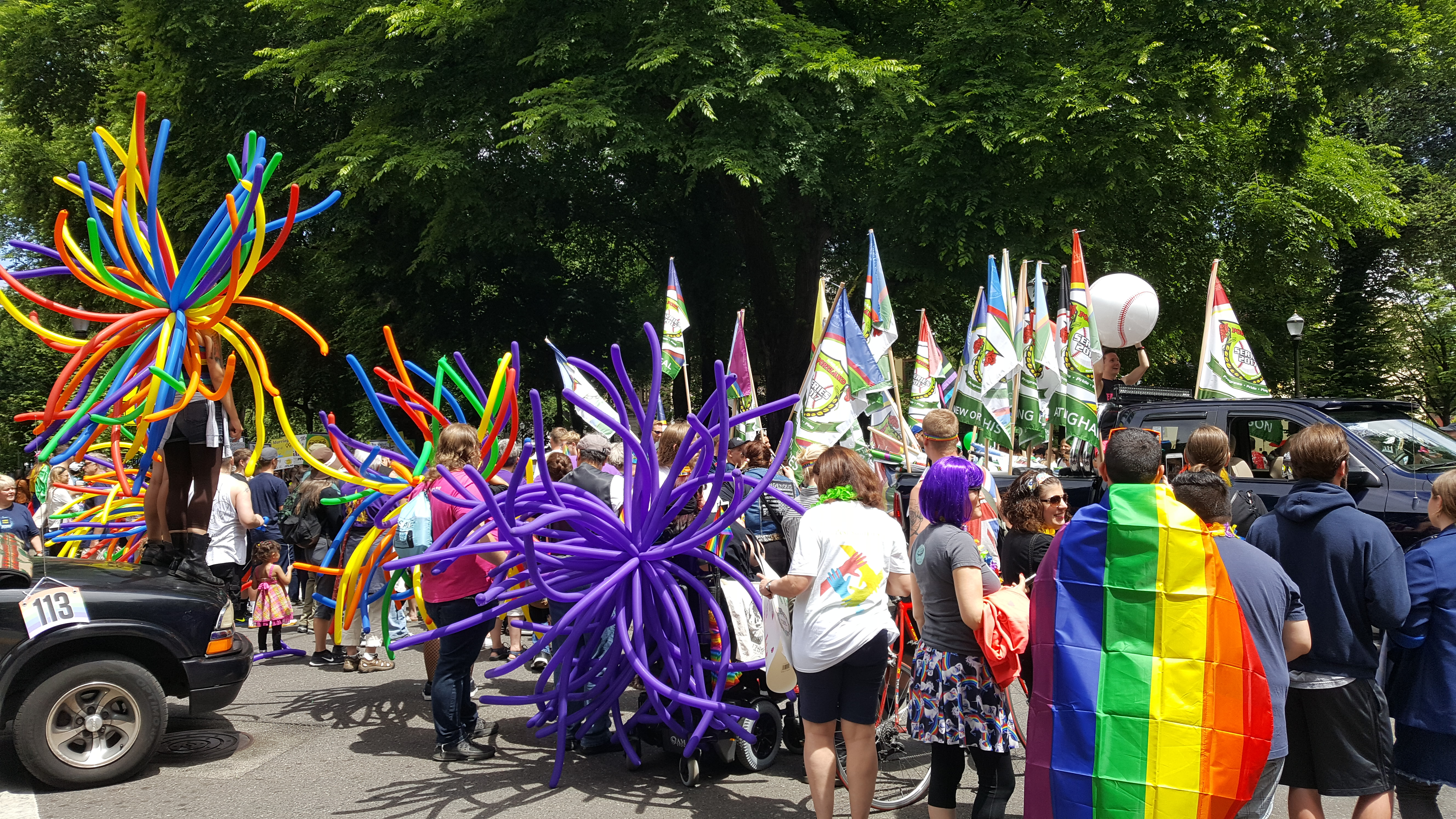 Portland Pride, 2017